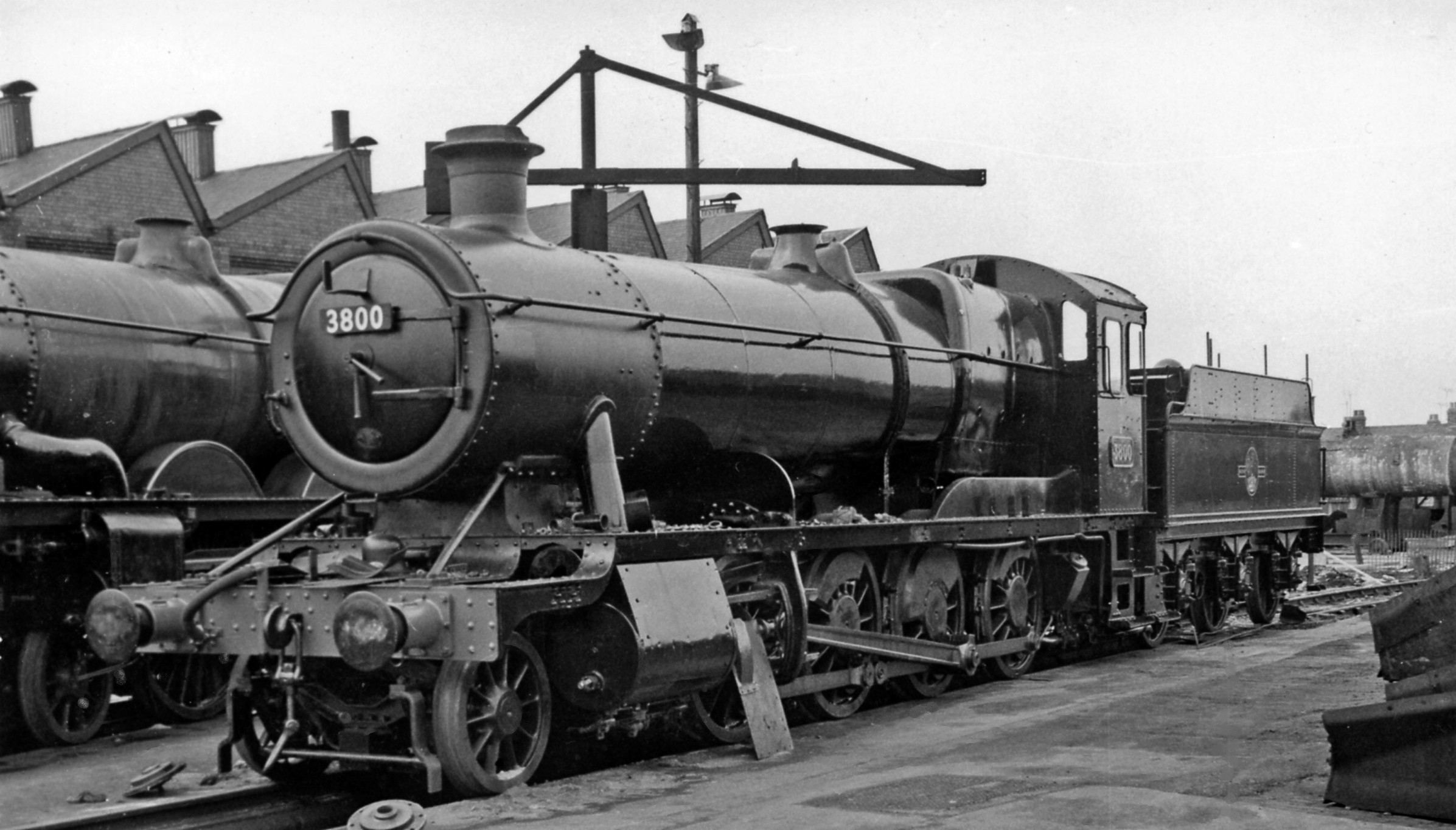 A '2884' 2-8-0 fresh from repair, outside Swindon Works. No. 3800 was built in 12/38 and withdrawn 8/64 - representative of a very successful GWR heavy freight class dating back to 1903.